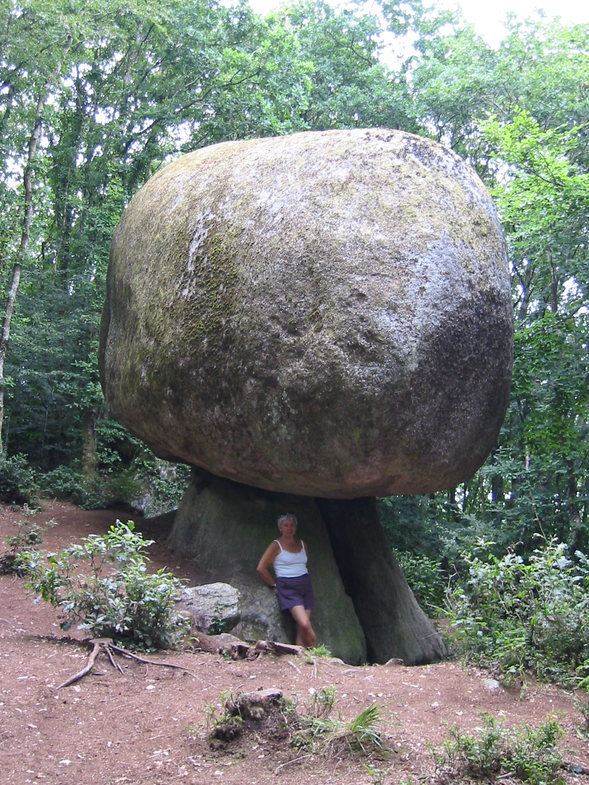 Eng:'Champignon' rock, Huelgoat, Brittany, France. Taken 01 Aug 2004 by wurzeller and hereby released into public domain by same. Fr: Rocher 'Le Champignon', Huelgoat, Bretagne, France. Fait le 01 Août 2004 par wurzeller et libéré dans le domaine public par l'auteur.